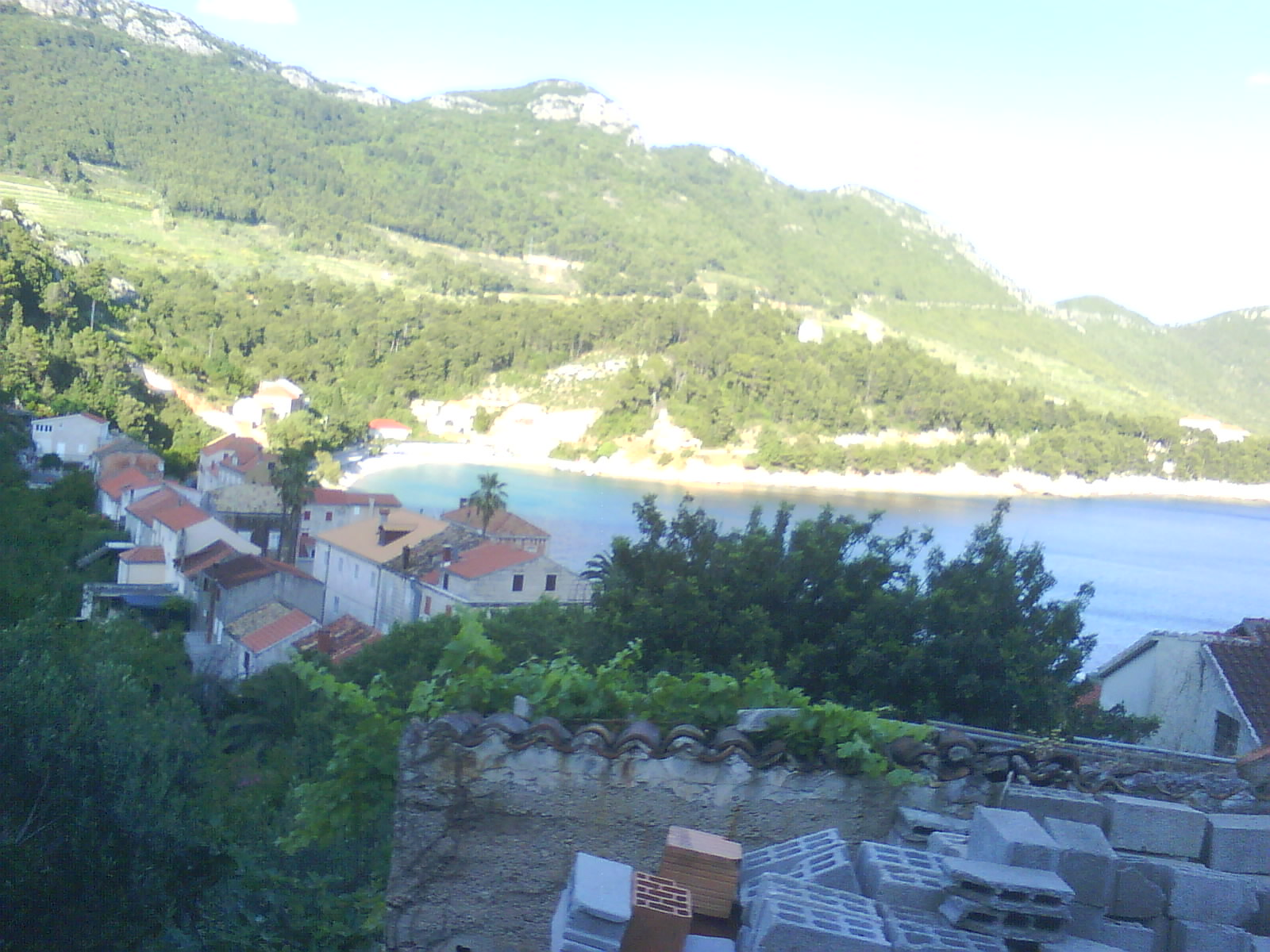 village Trstenik,municipality of Orebić